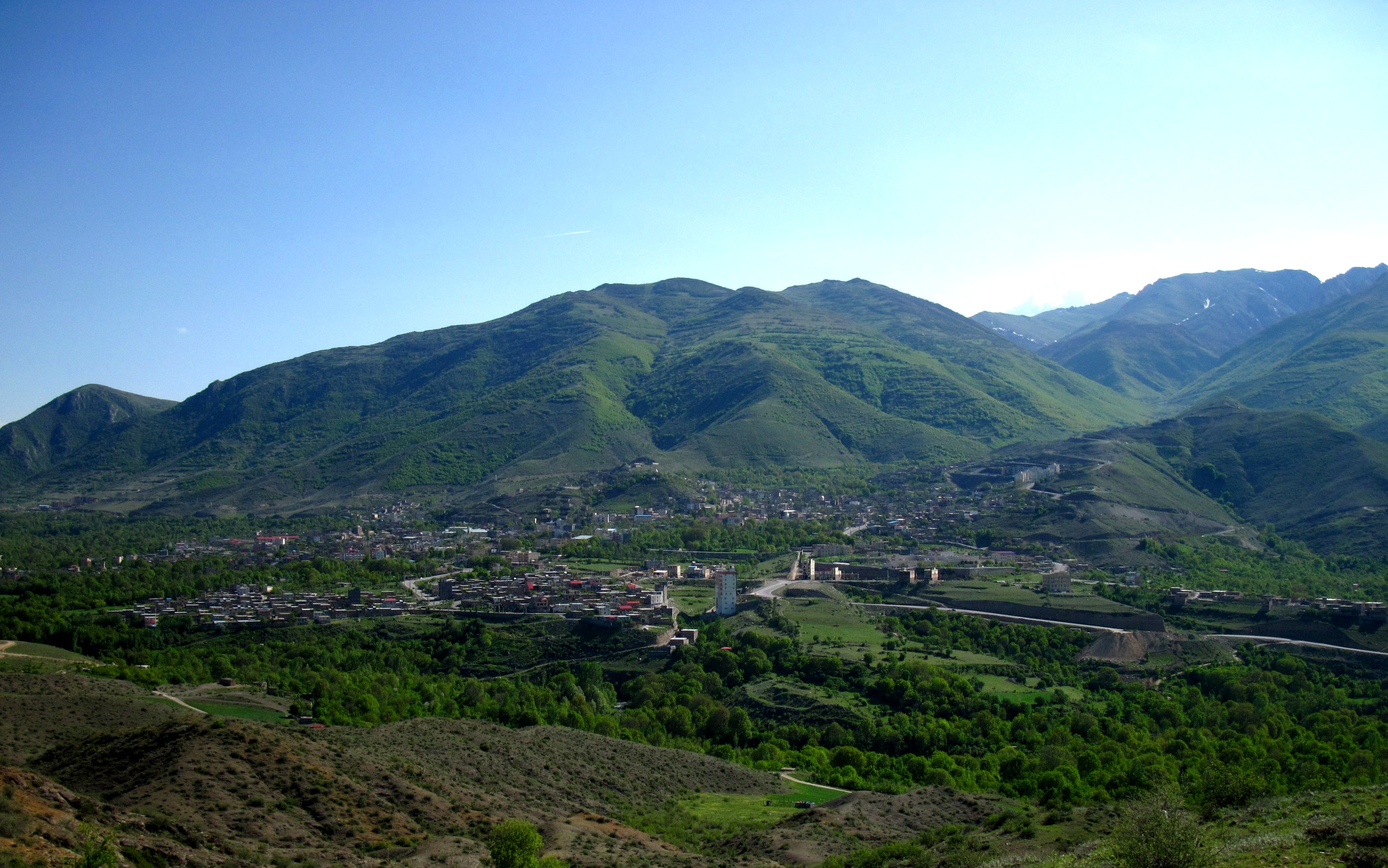 Ravanbakhsh Lesi has taken this photo of Kaleybar city. This is intended for Arasbaran and Kaleybar wikipages.